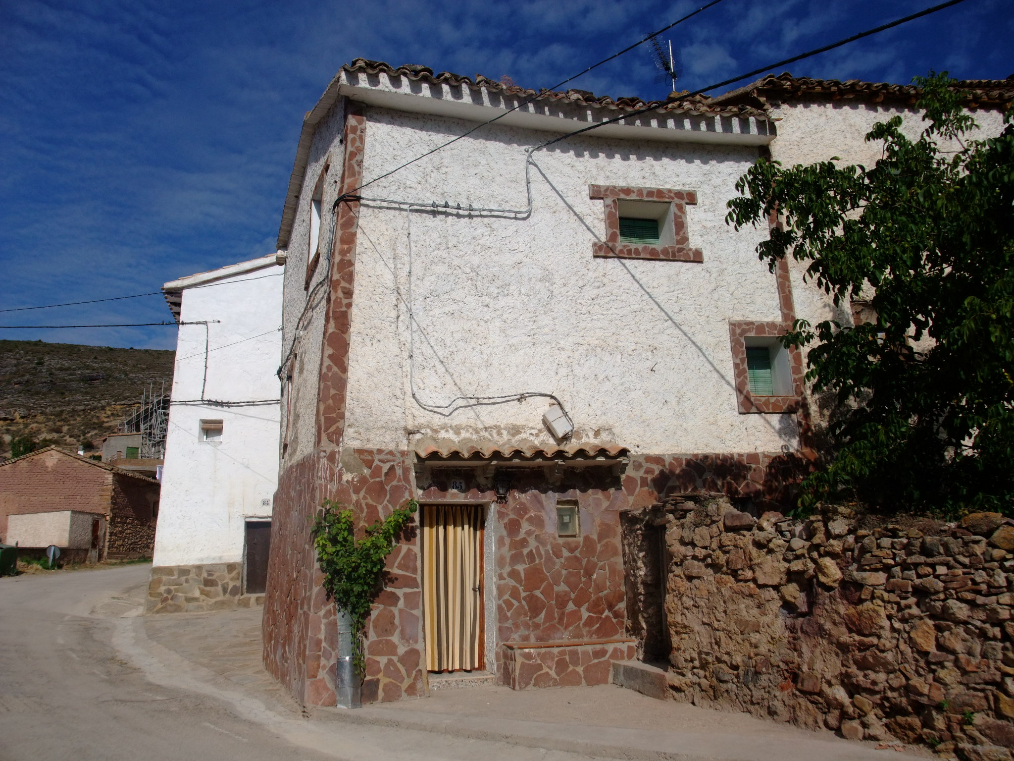 In the village of Calcena